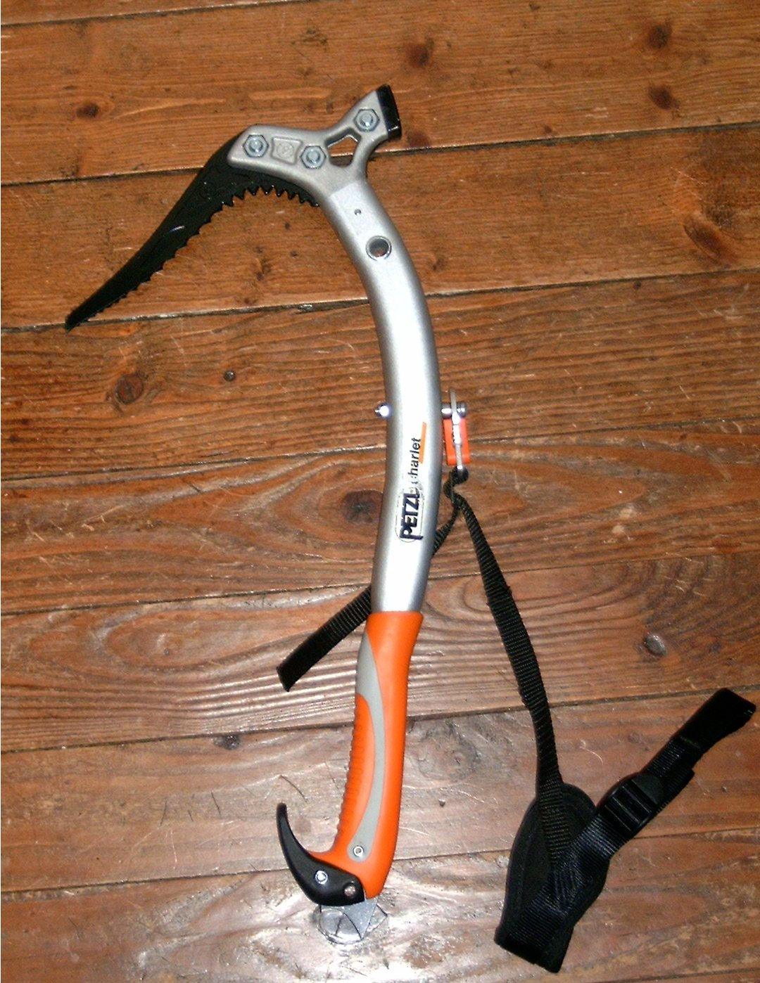 A modern icetool for steep ice/icefall climbing